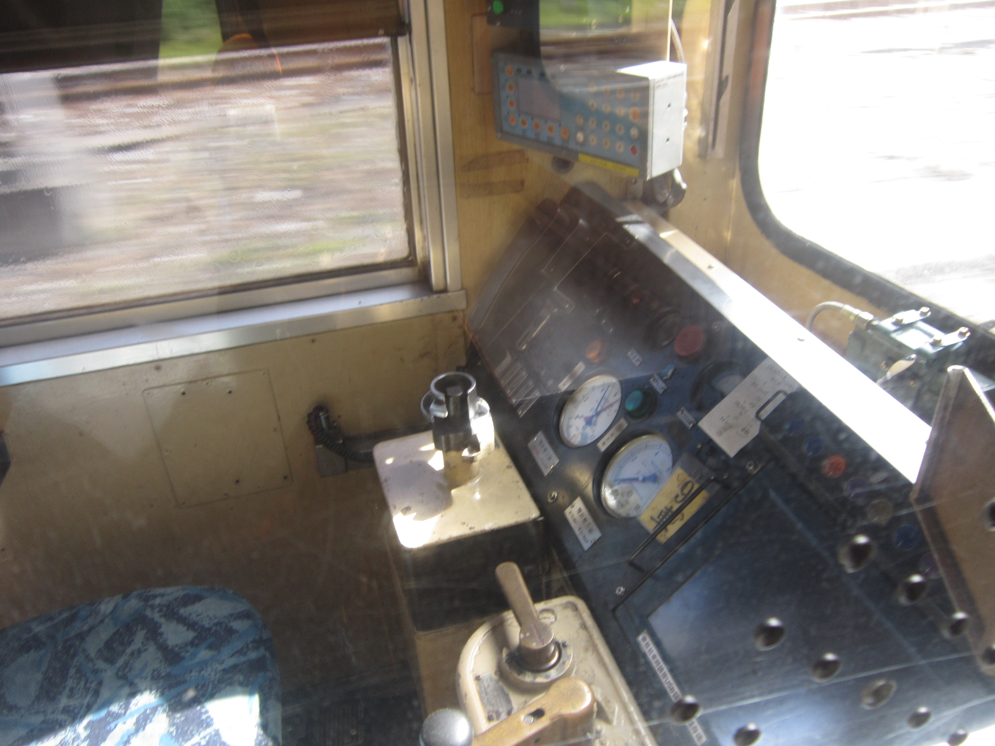 TRA DR3000/DR2900 driver room 中文（台灣）: 臺灣鐵路管理局DR3000/DR2900型柴聯車駕駛室